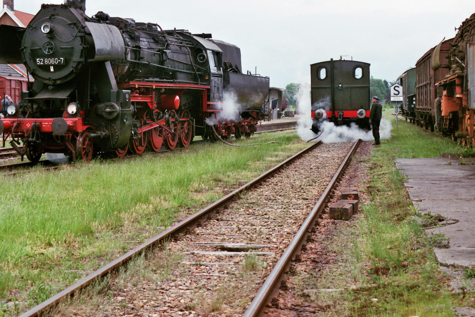 Fireless steamlocomotive O&K Zurdos (Zahnwasser), built in 1913, at heritage railway STAR in Stadskanaal is reloaded with steam from BR 52 8060-7